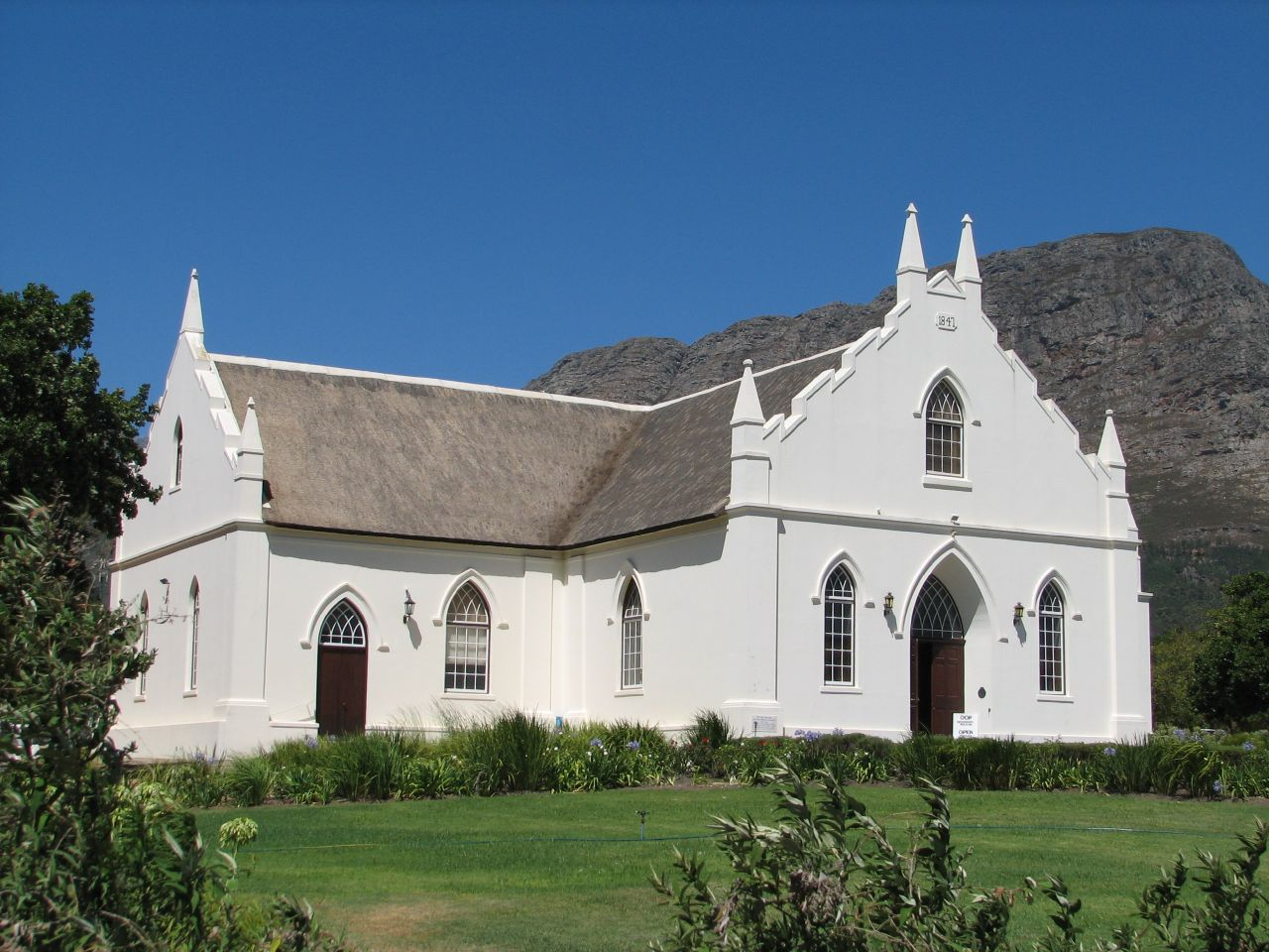 Built in 1847 and situated on the main road running through the town. This valley tightly hemmed in by mountains, is named after the French Huguenots who fled to the Cape after religious persecution in 1688. They brought with them a sound knowledge of viniculture and settled down to make wine in the ?French Glen? where the estates and many families still have French names. There is just one main street lined with wine estates and a few antique shops, cafes and restaurants until at the end you find the impressive Huguenot Memorial and Museum set in rose gardens by a peaceful lily pond. Published at